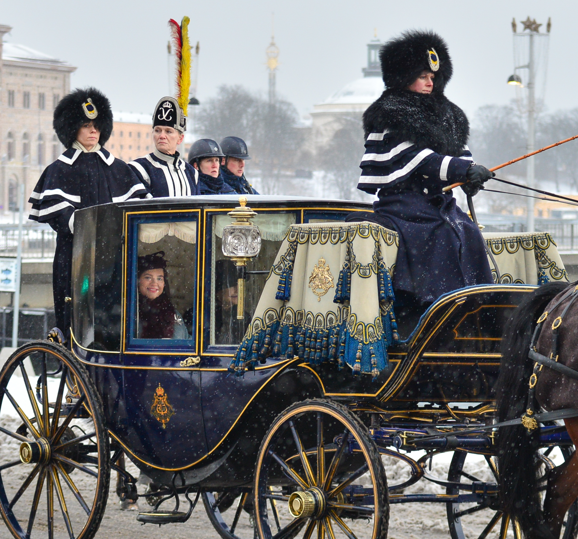 Islands president Gudni Thorlacius Jóhannesson on state visit in Sweden together with his wife Eliza Jean Reid in Stockholm on January 17, 2018.